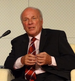 Greg Dyke. from 'TIM Forum(Trend + Issue in Media Forum)' 2011